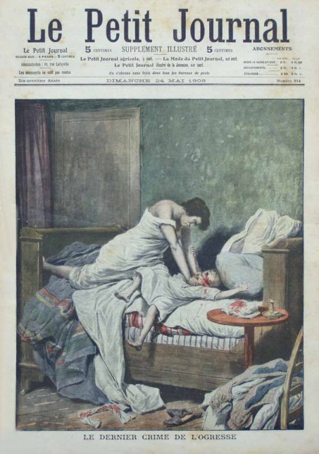 Cover of Le Petit Journal, May 24, 1908, painting of a scene where Jeanne Weber murders a child